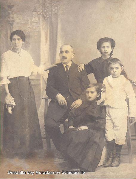 Əsədulla bəy Muradxanov (Assadula bek Murdahanov), a member of the First Russian State Duma, with his family